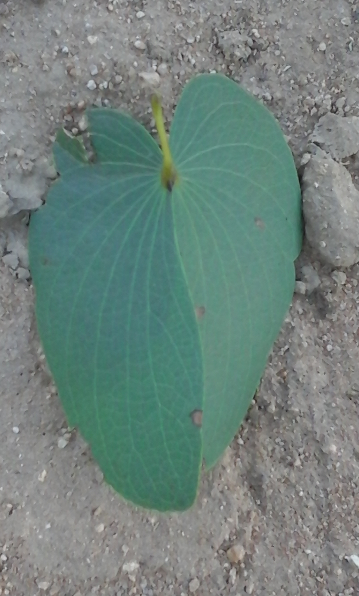 This is a leaf from a Mophane tree